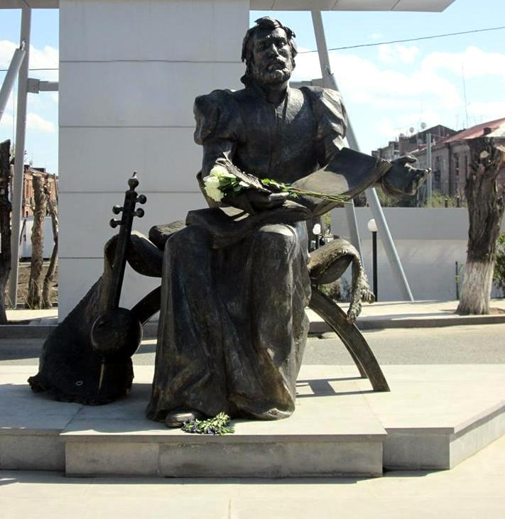 Սայաթ-Նովայի հուշարձանը Գյումրիում Monument to Sayat-Nova in Gyumri